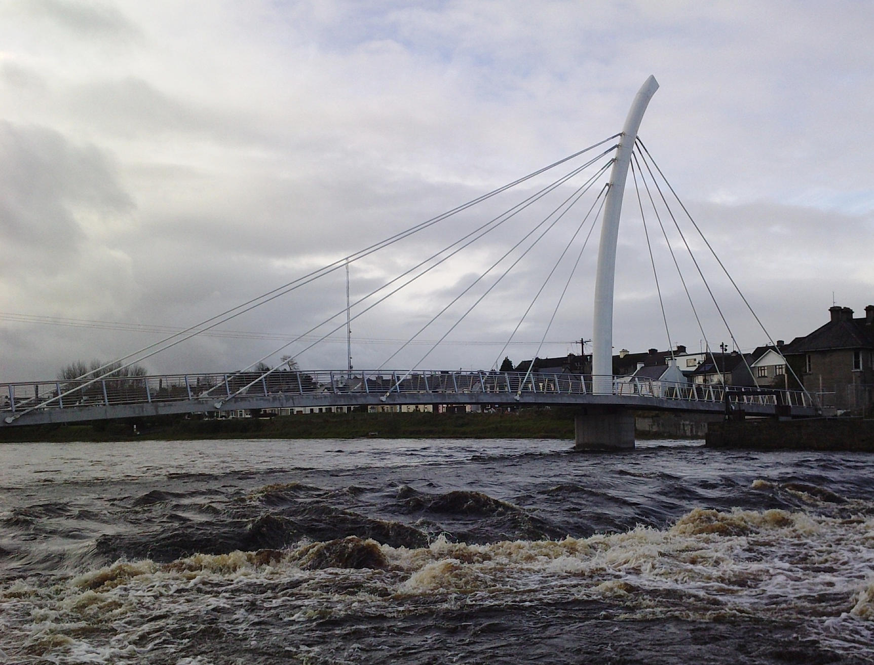 Pedestrian footbridge over the Ridge Pool on the River Moy in Ballina, Co. Mayo.